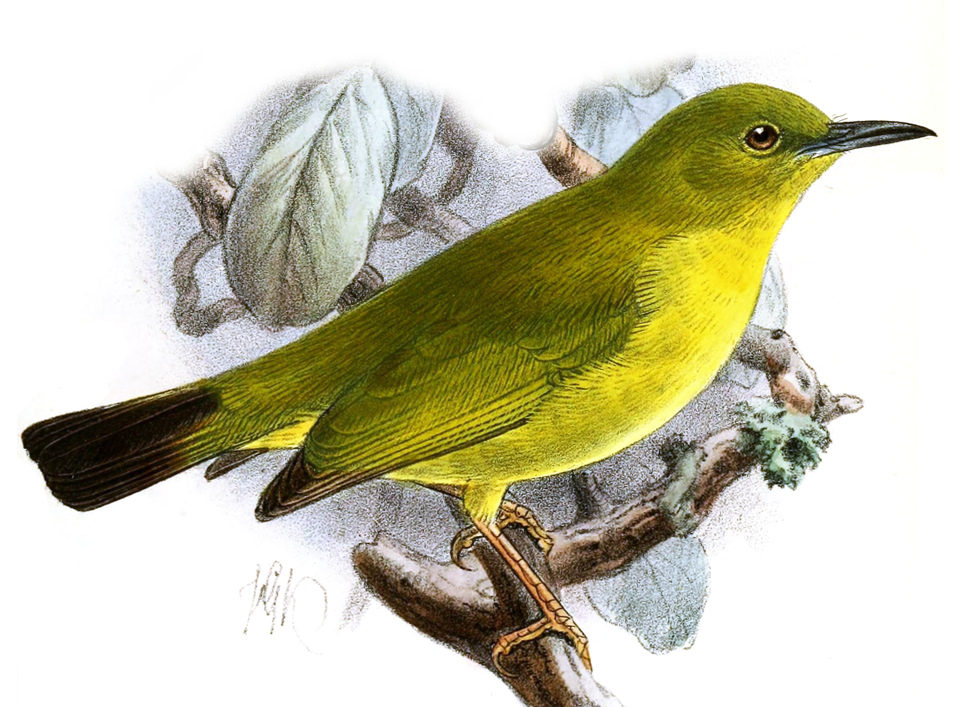 Zosterops rendovae = Zosterops kulambangrae rendovae (According to the text describing the plate, the bird was found at Solomon Islands on Rendova, Ibis S.30, therefore it is the New Georgia White-eye or Solomon Islands White-eye)